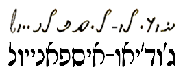 "Judeo-Español" written in Judaeo-Spanish in Rashi and Soletreo scripts.